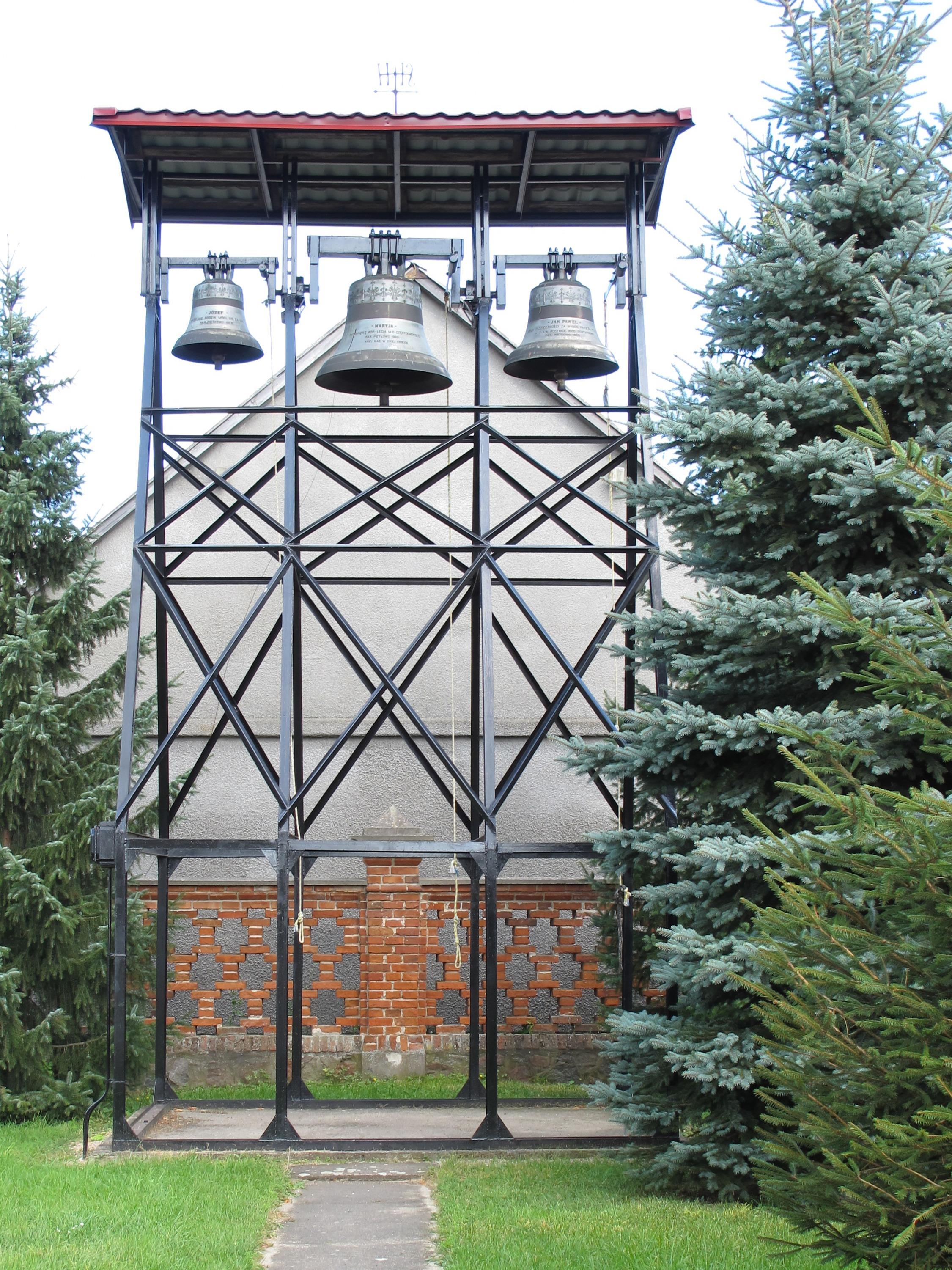 Saint Anne church in Pietkowo, gmina Poświętne, podlaskie, Poland